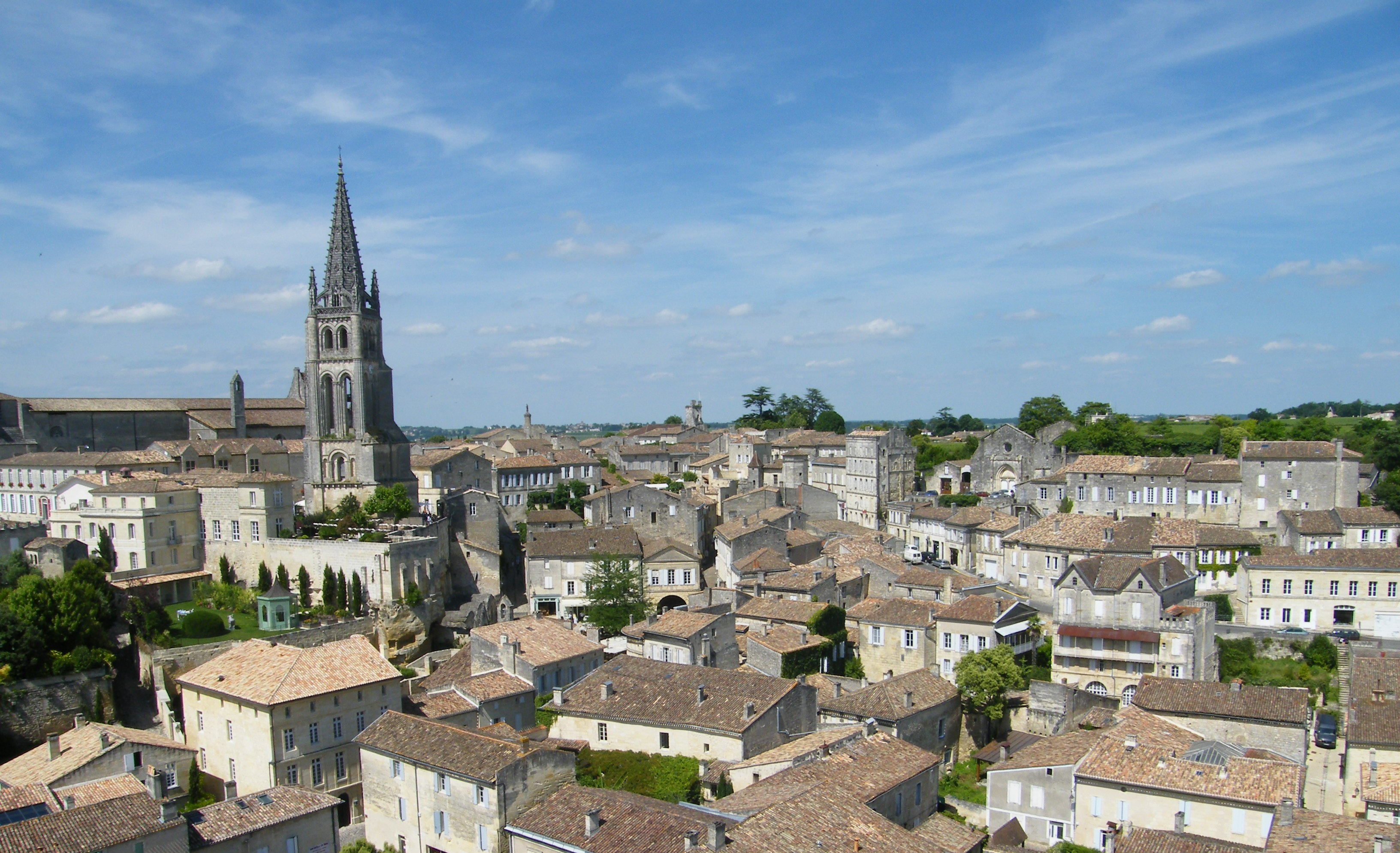 The town of Saint-Emilion